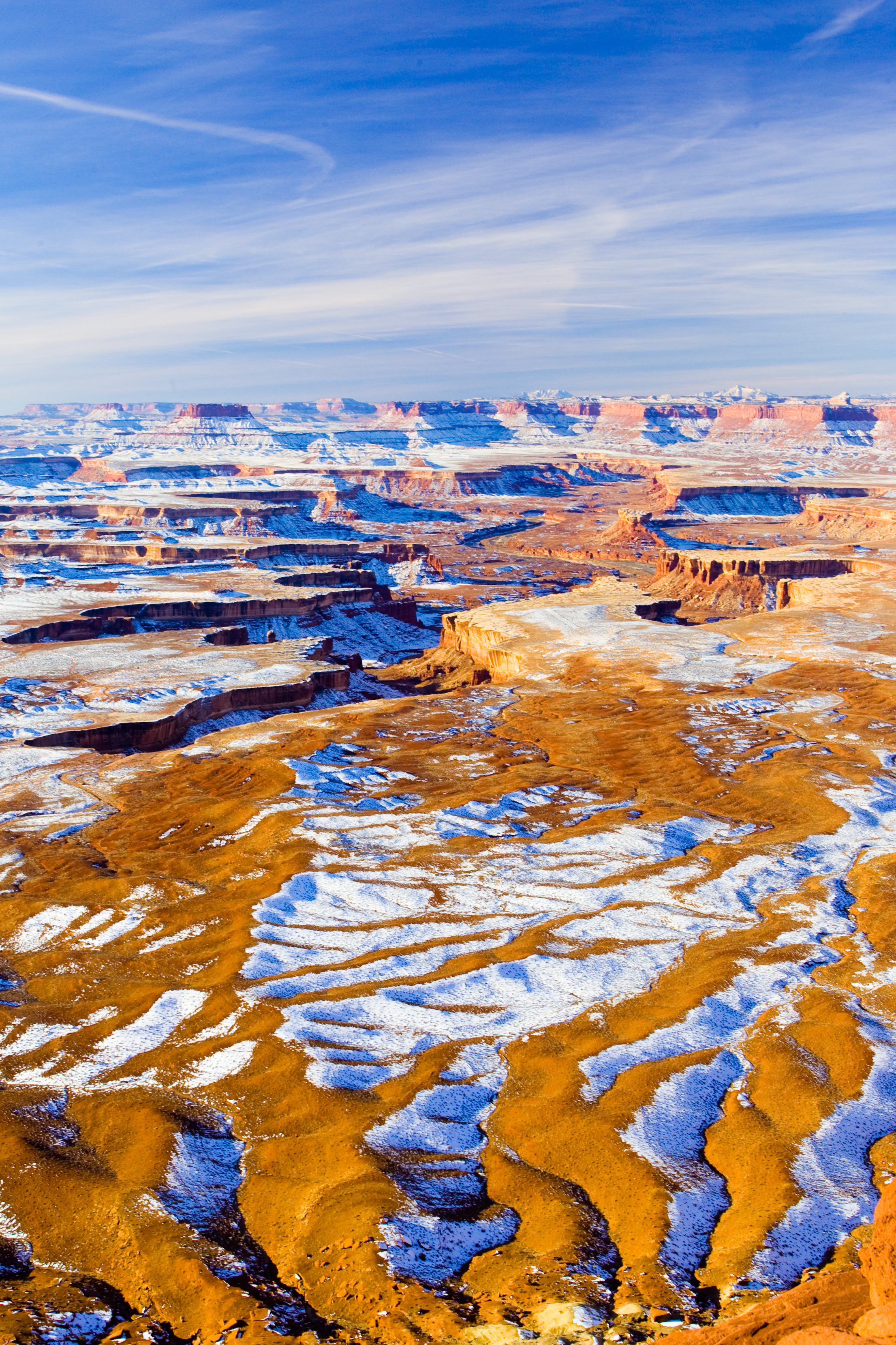 Expansive view of Canyonlands National Park from the Green River outlook.